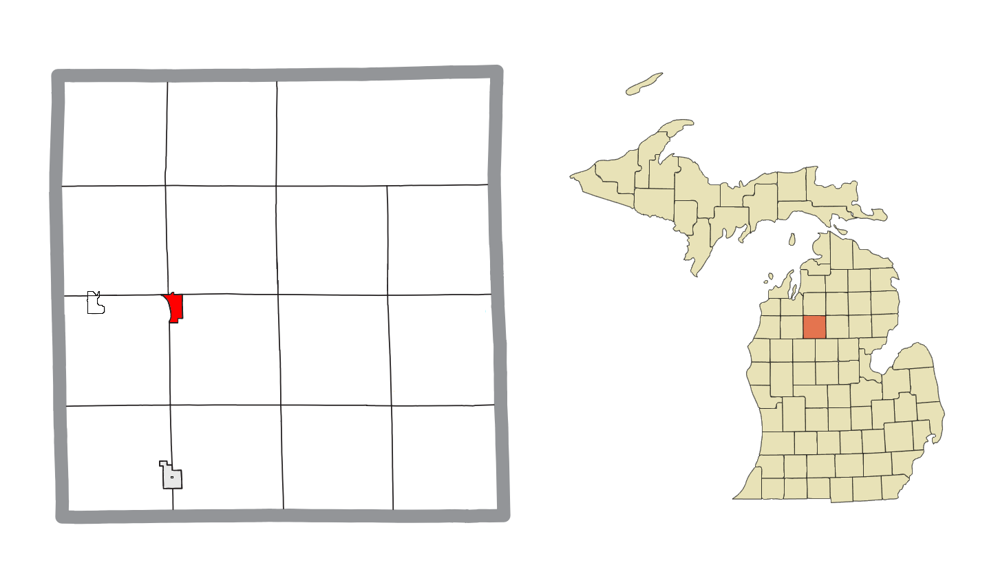 Lake City, MI